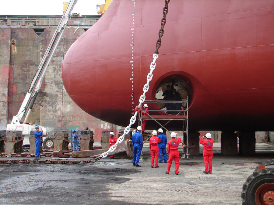 The bow thruster of the oil/chemical tanker Bro Elizabeth in dry dock in Brest.